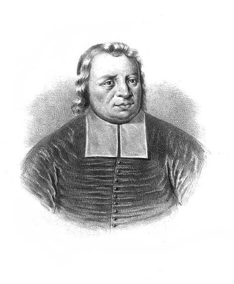 Teodor Potocki Primate of Poland